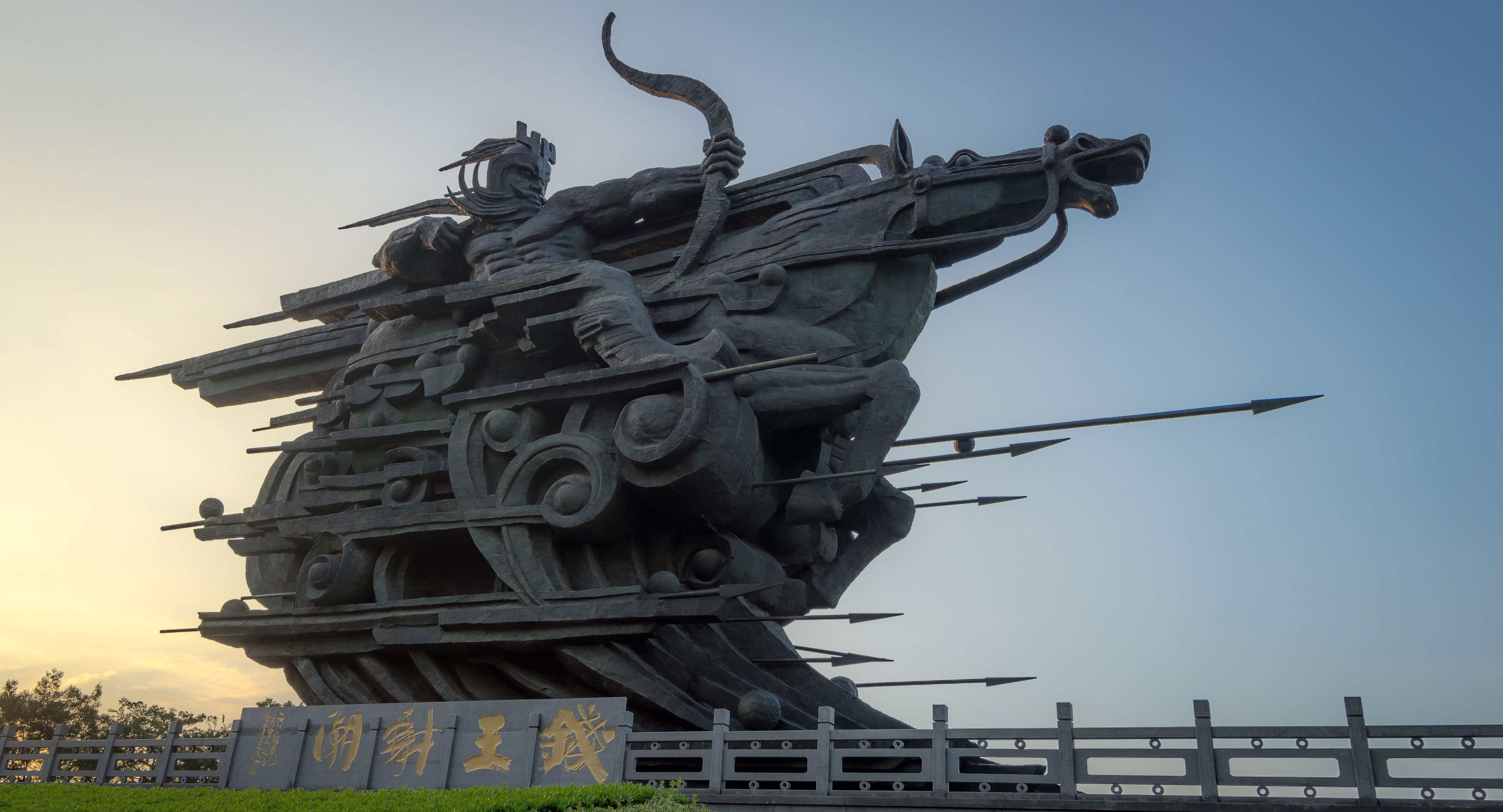 King Qian Shooting the Tidal Wave, Han Meilin, unveiled in 2008, Binjiang Park, Hangzhou. It depicts the popular king of Wuyue who shot at a mischievous god of tides who destroyed coastal dikes.